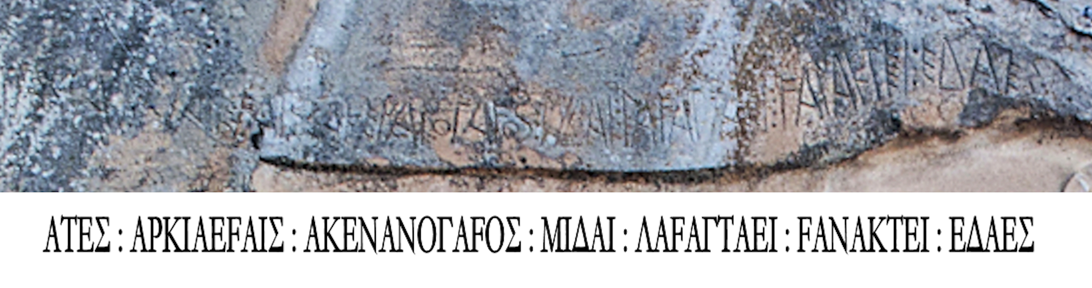 Midas inscription with transliteration